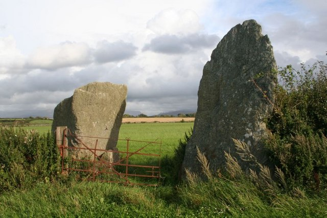 Bryn-gwyn Stones Another view of the standing stones, a rough mesurement of the height, one on the left about 10-12ft on the right 14-16ft.